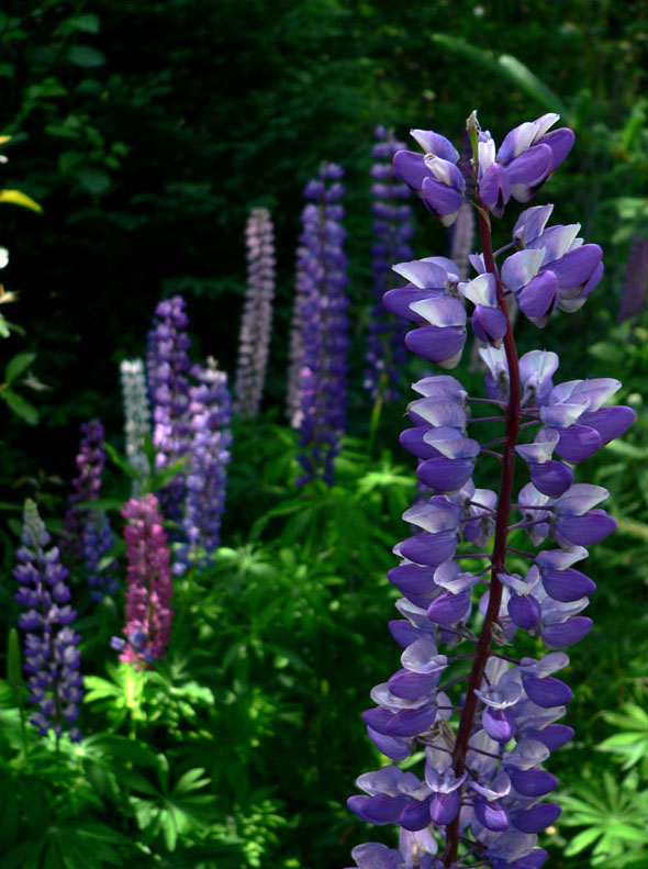 A photo I took of a lupin (Lupinus polyphyllus) a few summers ago in northern Maine. This and other photos of mine can be found on my website, 71.59.7.176 (talk) 01:26, 6 September 2008 (UTC)